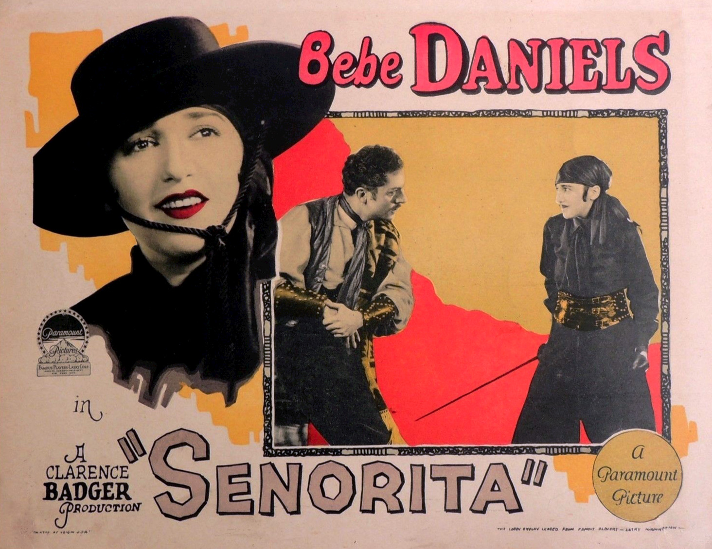 Lobby card for the American comedy action film Señorita (1927). There are no copyright marks on the item. At lower left is Country of origin USA. At lower right is This lobby display leased from Paramount Famous Players Lasky Corporation.